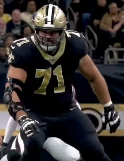 Ryan Ramczyk in 2019